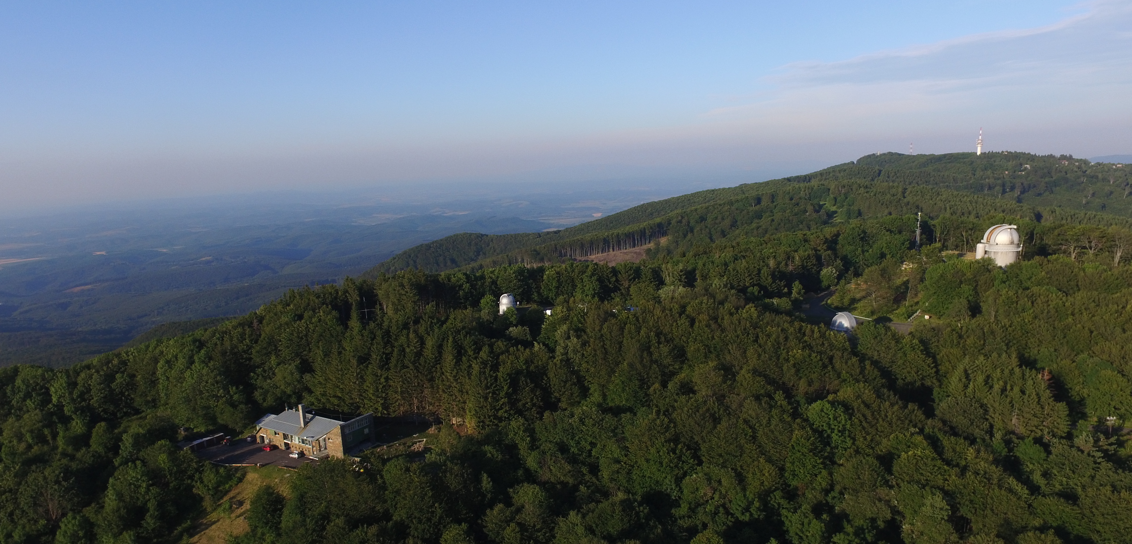 Drone shot of Piszkéstető observatory.